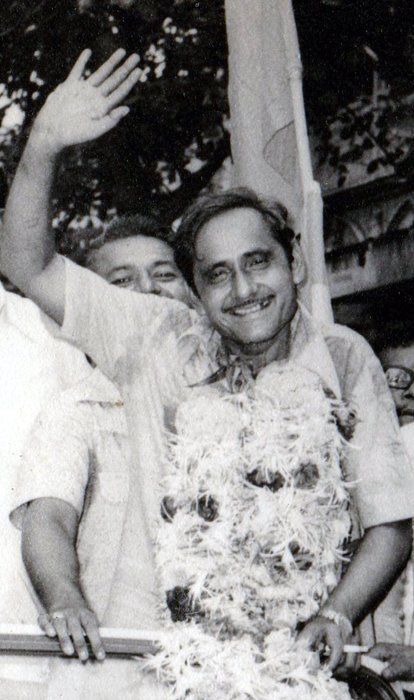 Victory Rally: Shaikh Shamim Ahmed s/o Shaikh Azeezur Rahamn wins Maharashtra State General Assembly Election from Chinchpokli (Byculla), Mumbai on 28th May 1980.